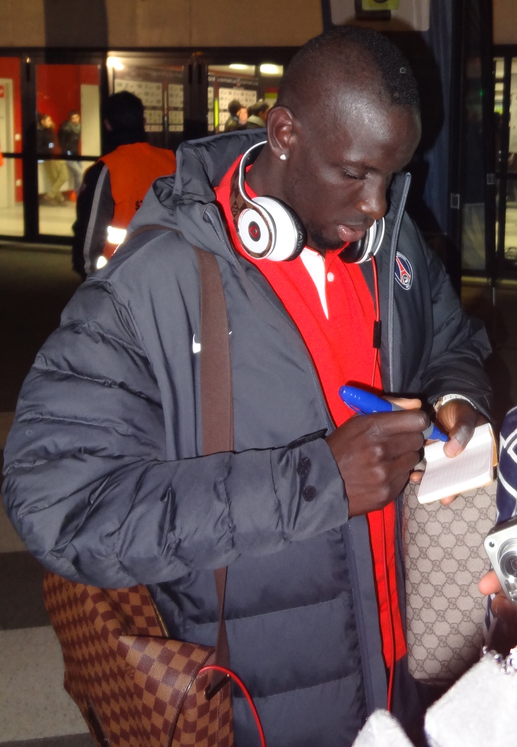 Mamadou Sakho, PSG